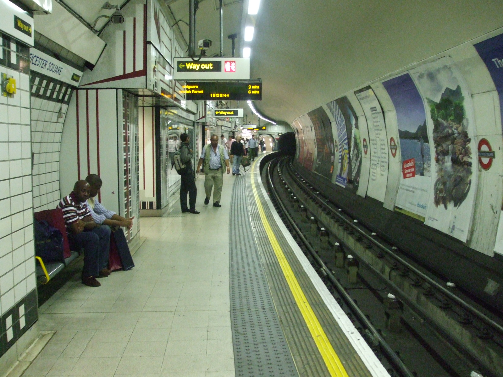 Leicester Square tube station Northern line northbound platform looking south